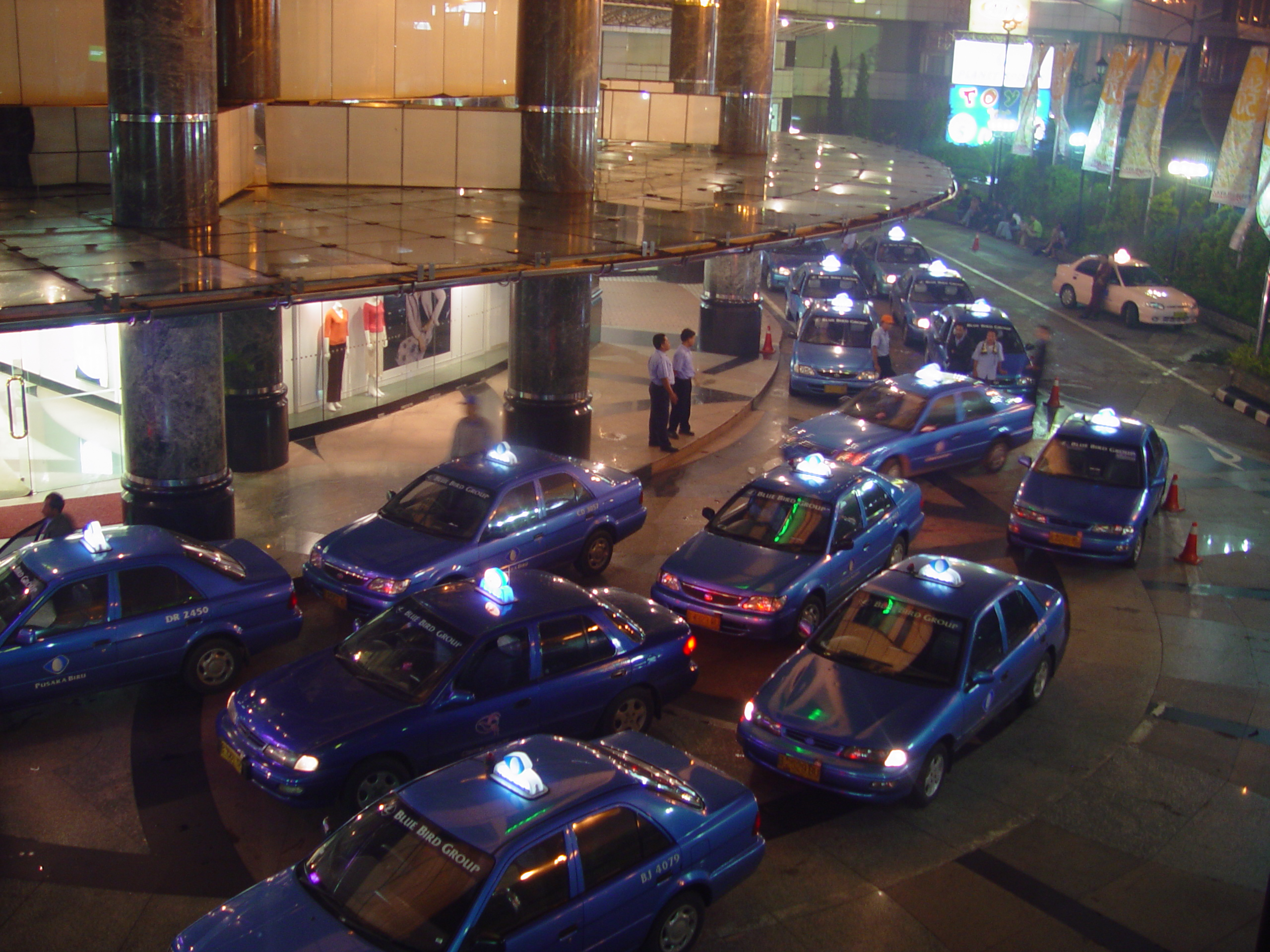 Mall cultural in Jakarta, Indonesia.